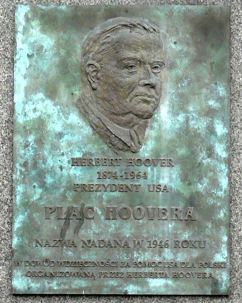 Herbert Hoover Plaque - Poznan.